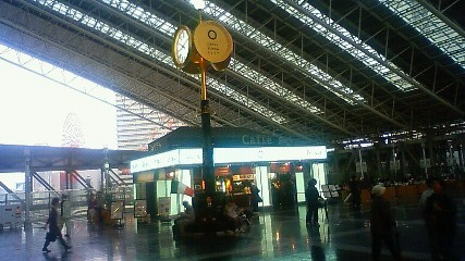 Osaka Station. Osaka Station, Osaka.